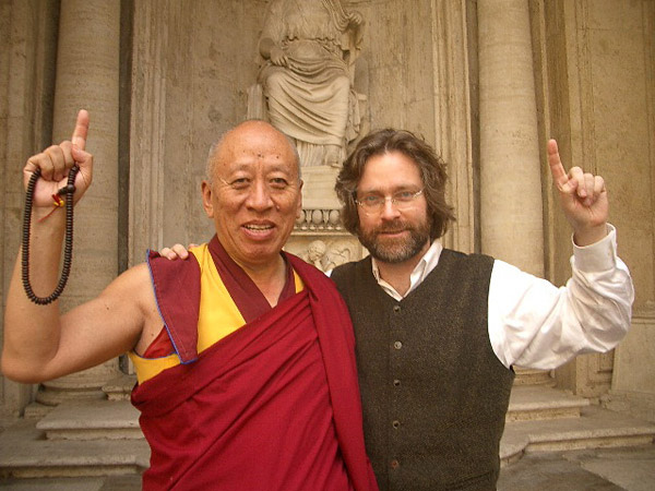 Photo of Marc Gafni